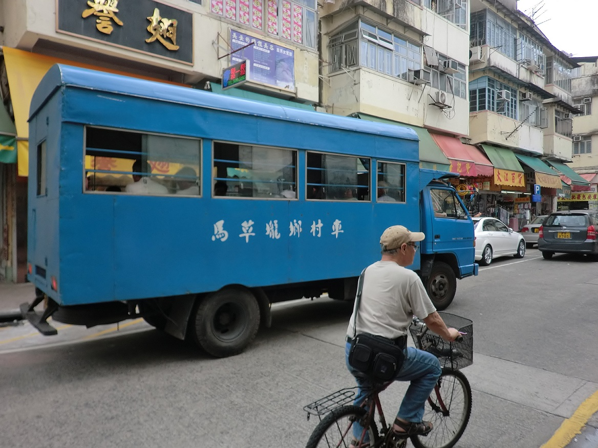 A view of Shek Wu Hui in Sheung Shui, Hong Kong